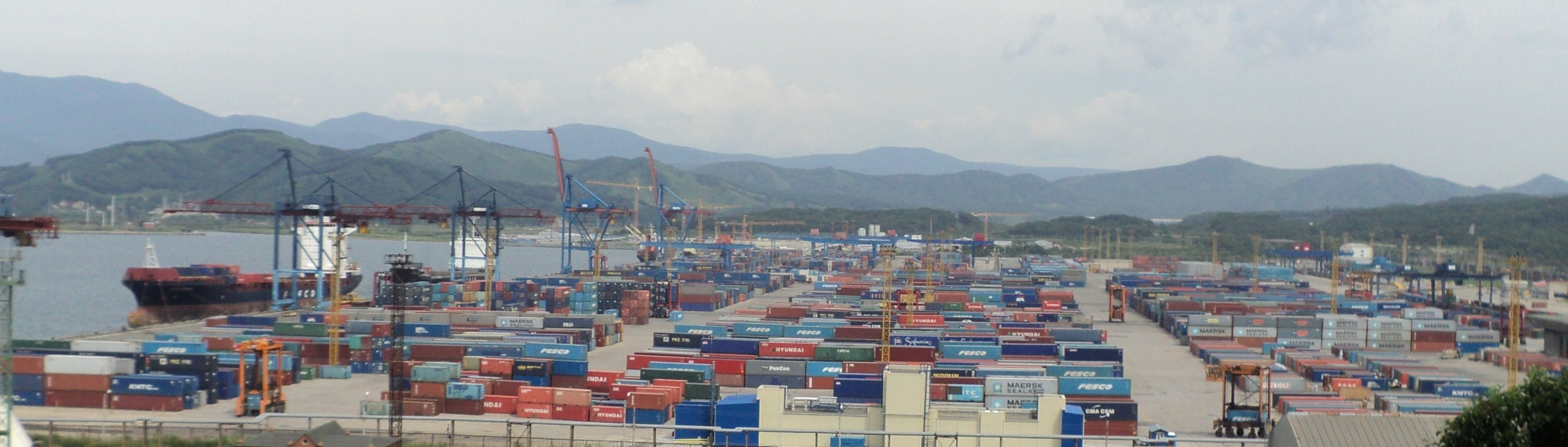 Vostochny Port Container Terminal, Nakhodka